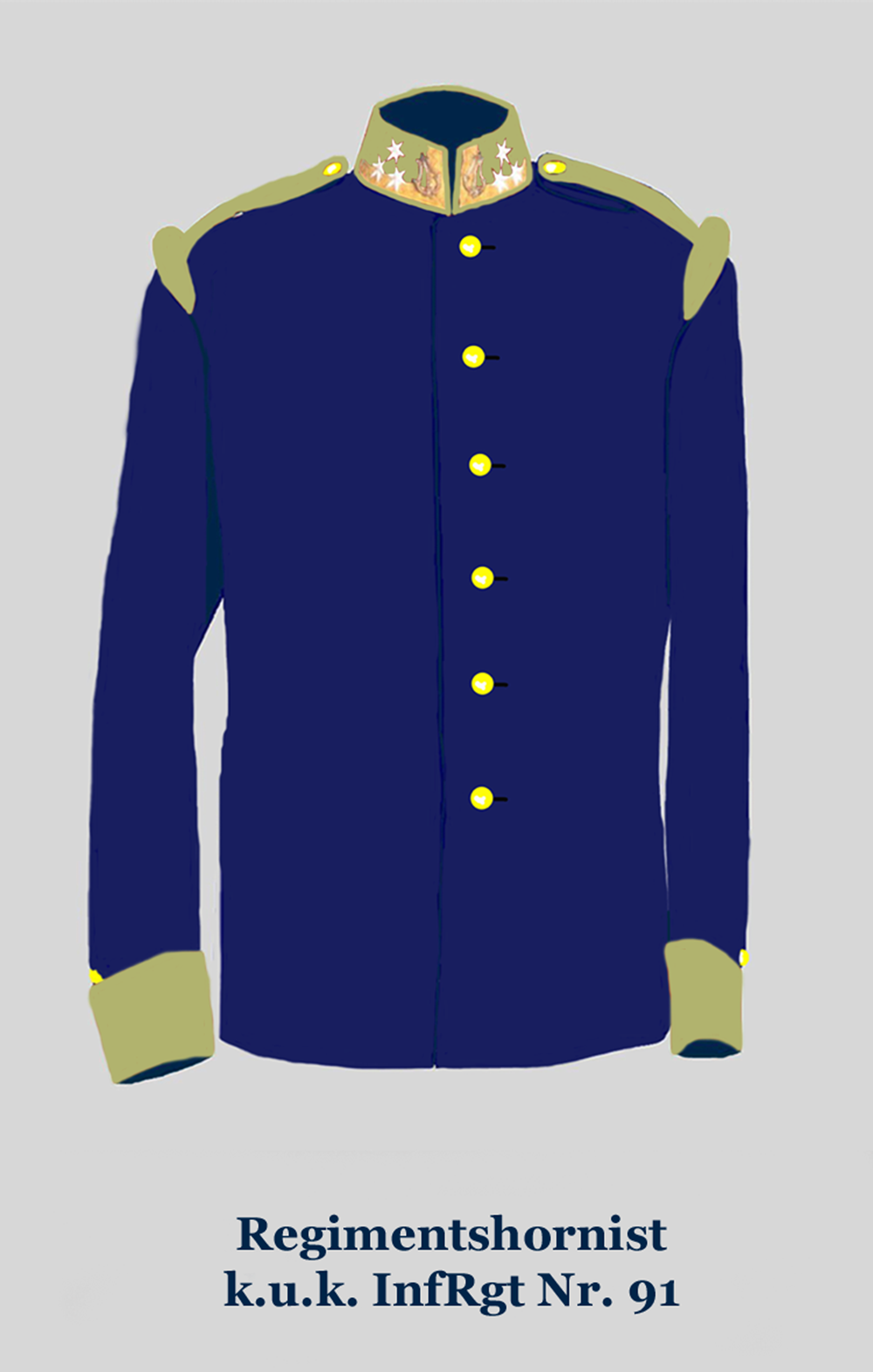 Regimntal Bugler/Drummer of the Austria-Hungarian 10th Infantry Regiment. Parrot-green identification color and yellow buttons